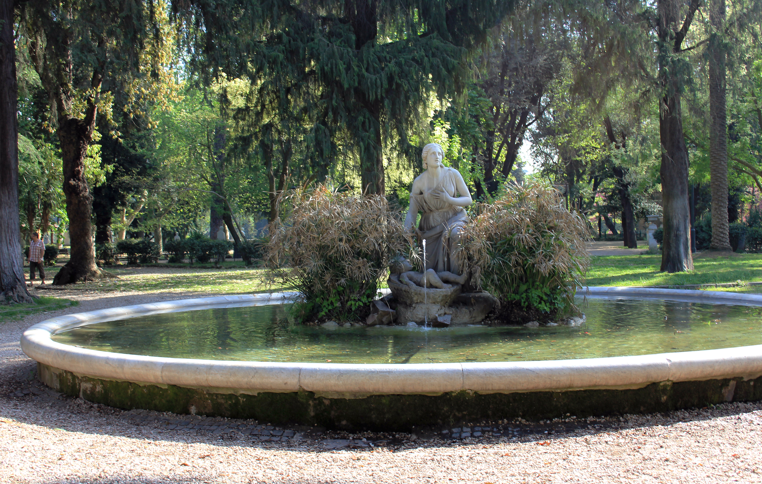 Fountain inside of Villa Borhgese gardens, Rome, Italy